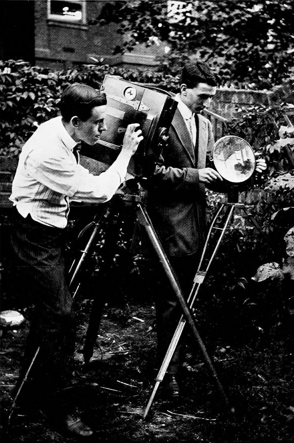 Nature and the cinematographer. Mr. Percy Smith at workDepicted person: F. Percy Smith – British nature documentary pioneer